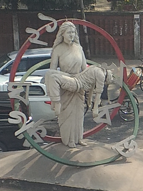 ভাষা সৃতি স্তম্ভ